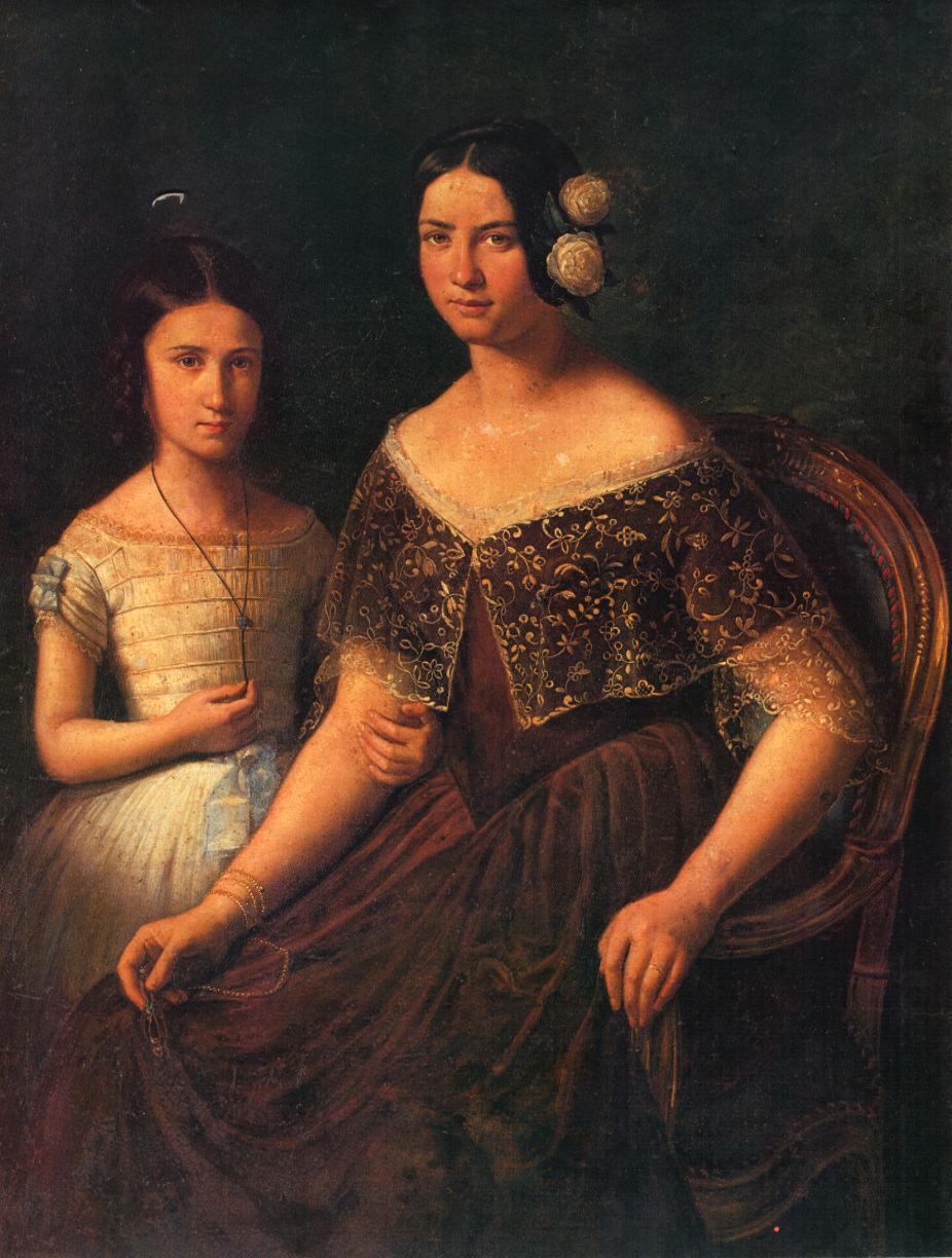 Mother and daughter